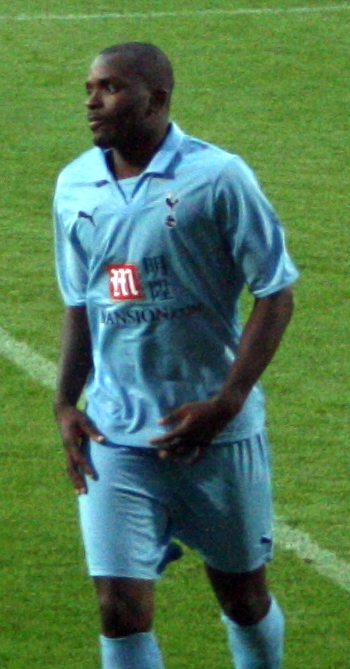 Darren Bent playing for Tottenham Hotspur against Norwich City at Carrow Road, Norwich on 28 July 2008